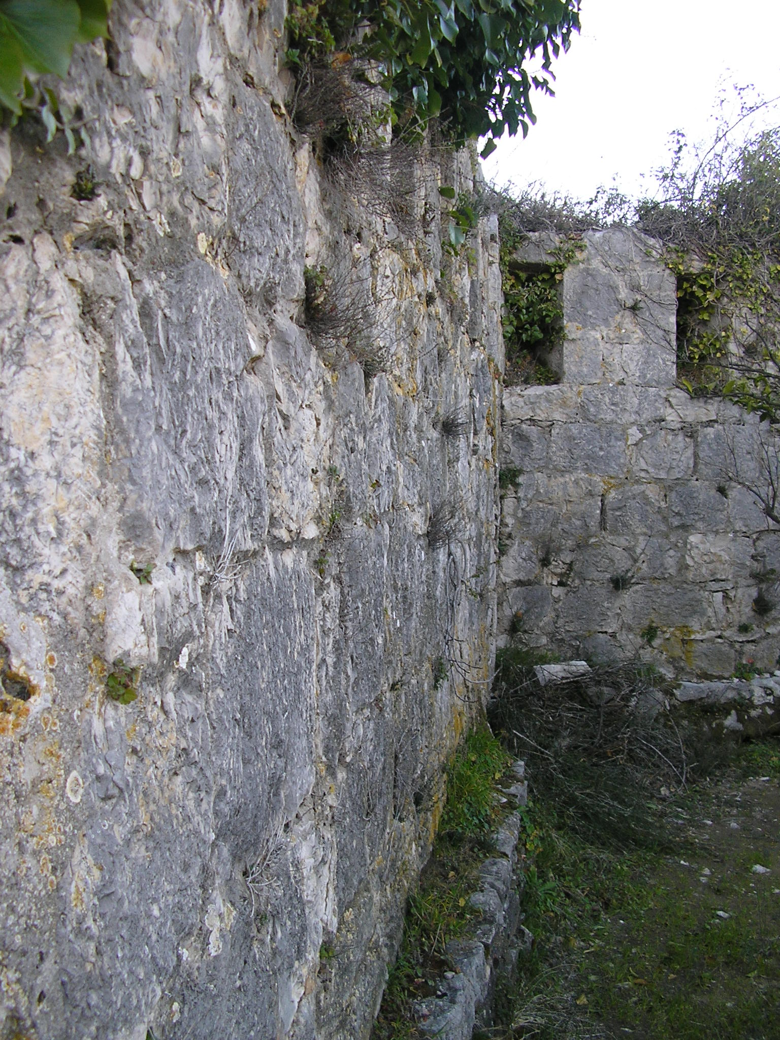 Kula Norinska fort